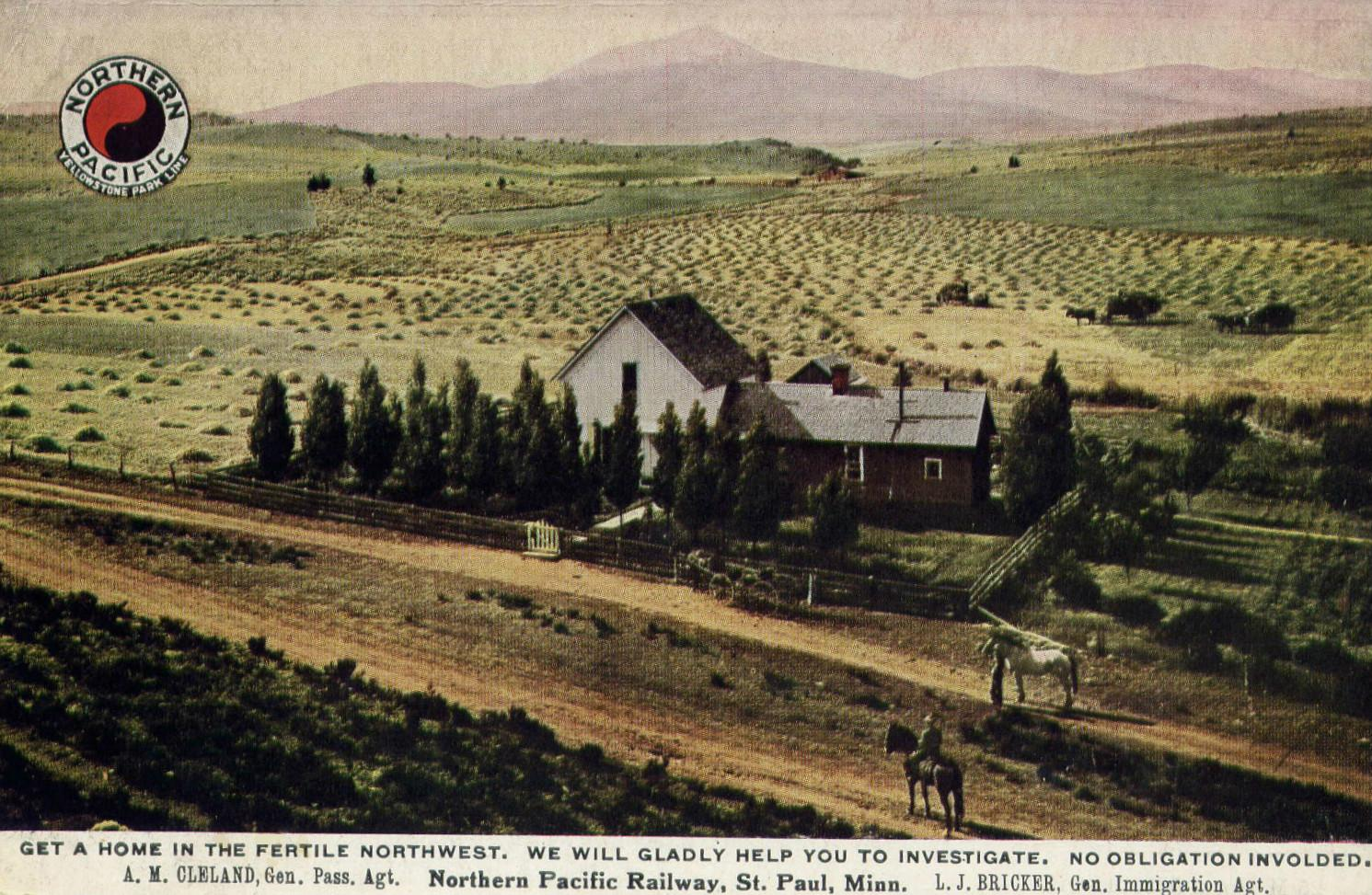 Postcard ad promoting excursions for homebuying in the Pacific Northwest by Northern Pacific Railway.